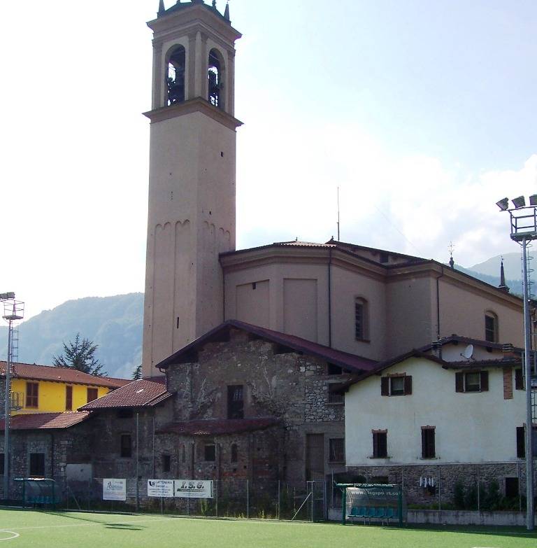 Pieve - Chiesa di Santa Maria Assunta. Cividate Camuno, Val Camonica